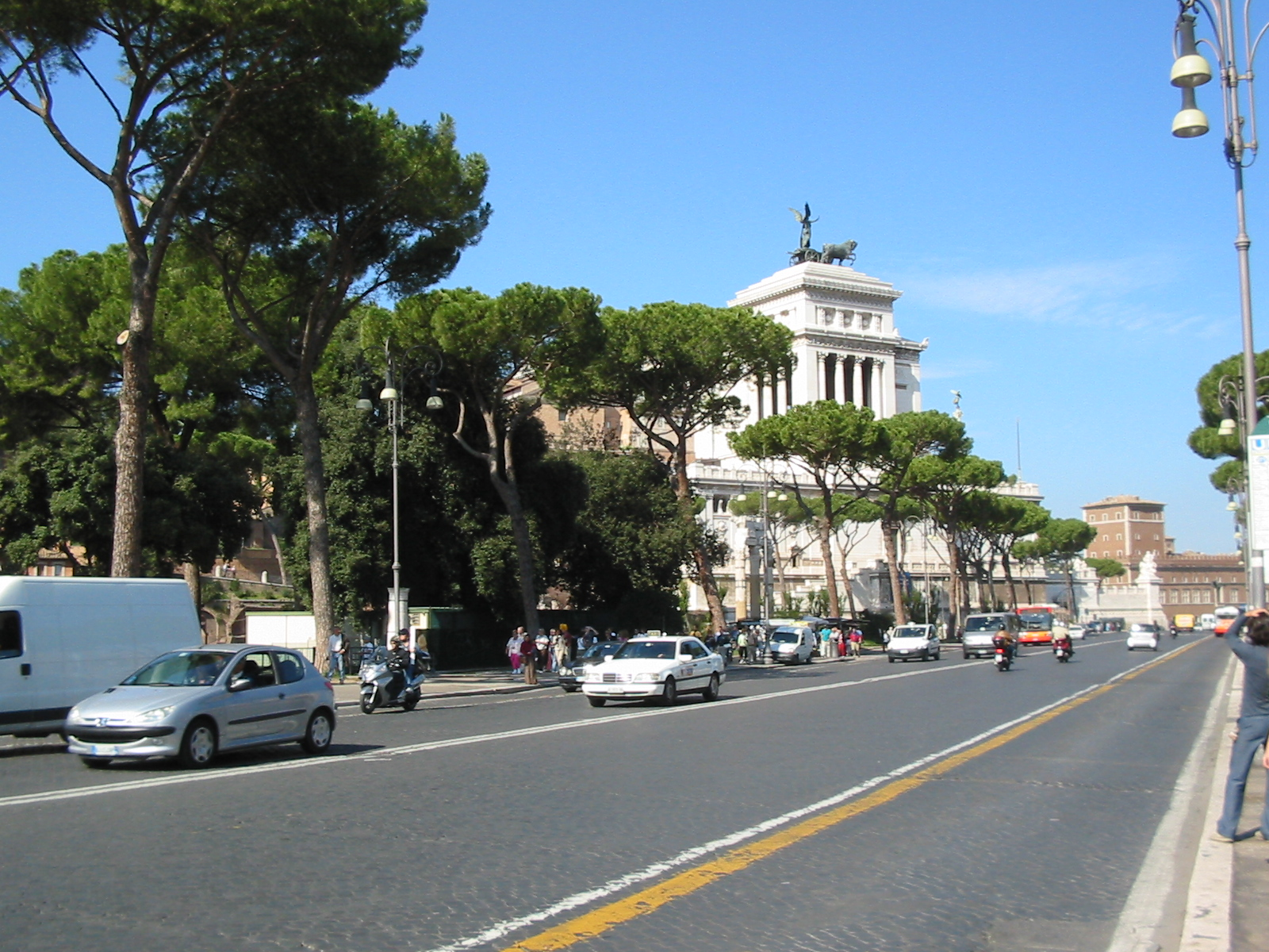 via dei Fori Imperiali, on the edge of the rione